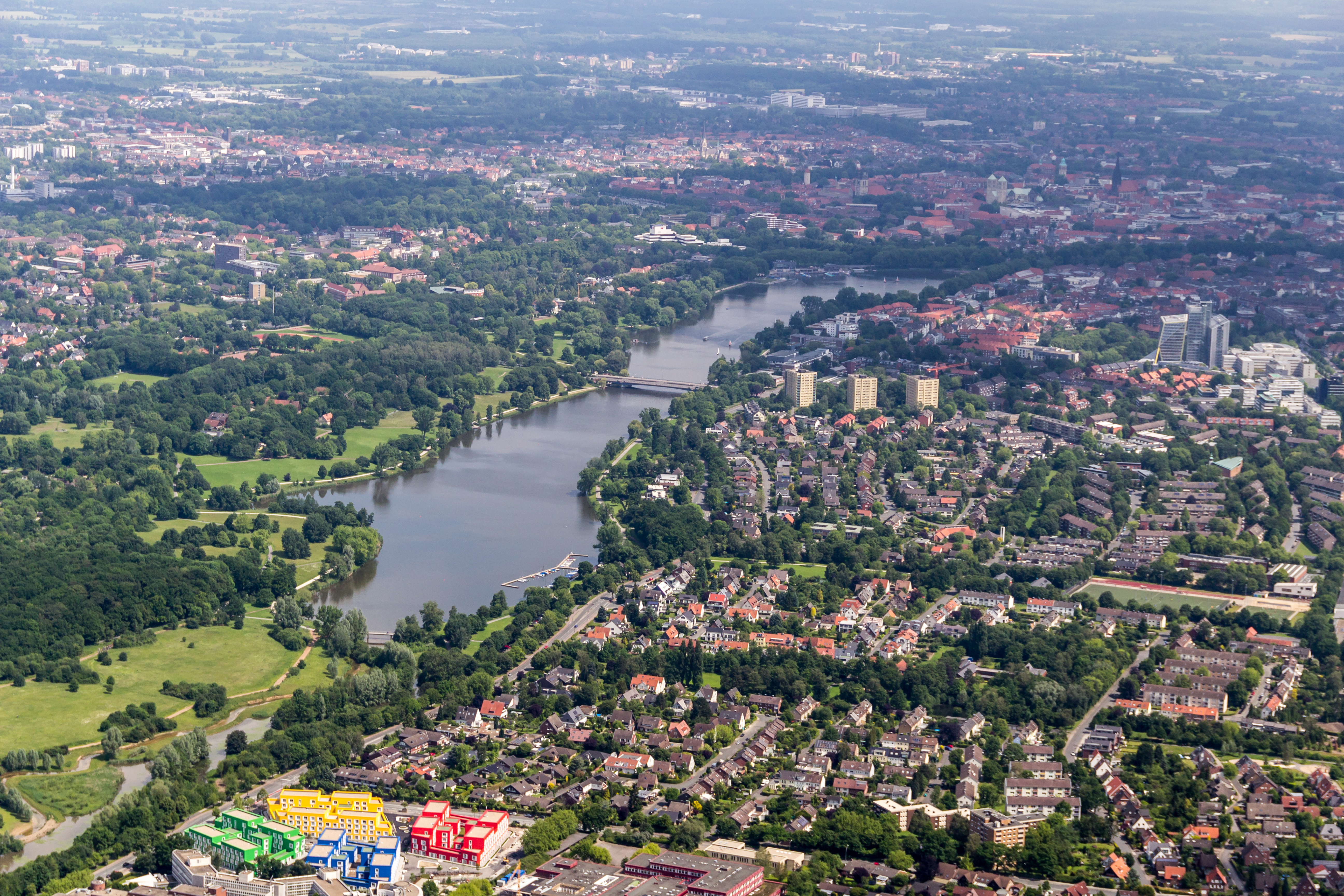 Aasee, Münster, North Rhine-Westphalia, Germany